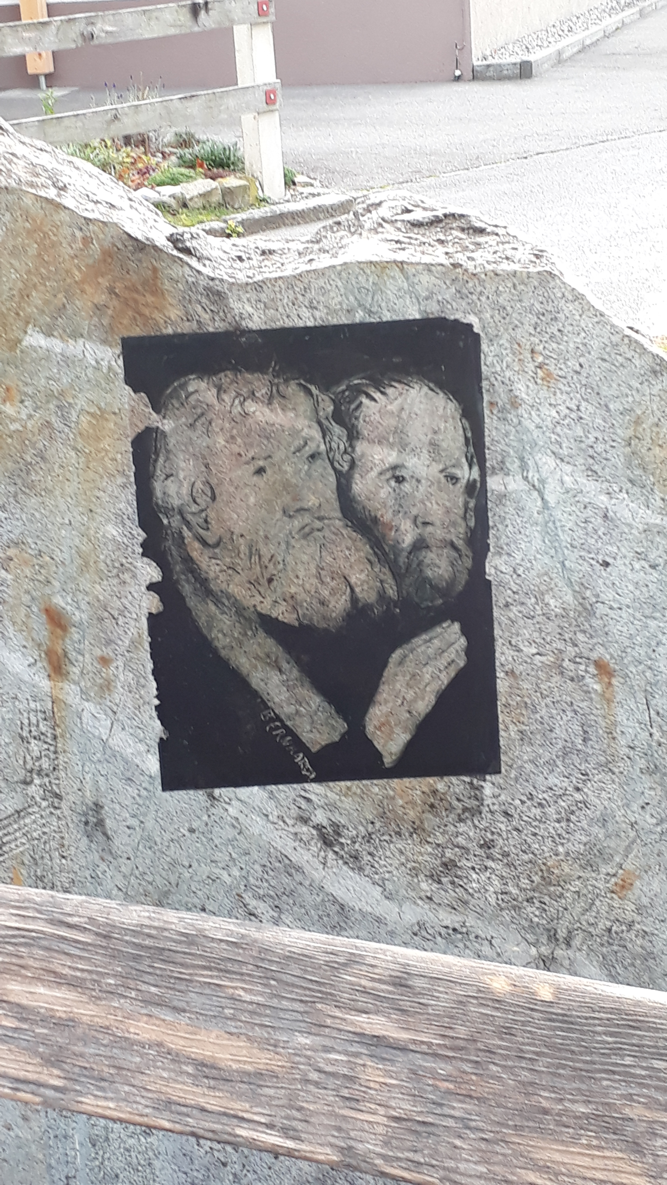 Monument to Bartholomew Bernhardi (1487-1551) and Johannes Bernhardi (1490-1534) in Schlins, Vorarlberg, Austria.